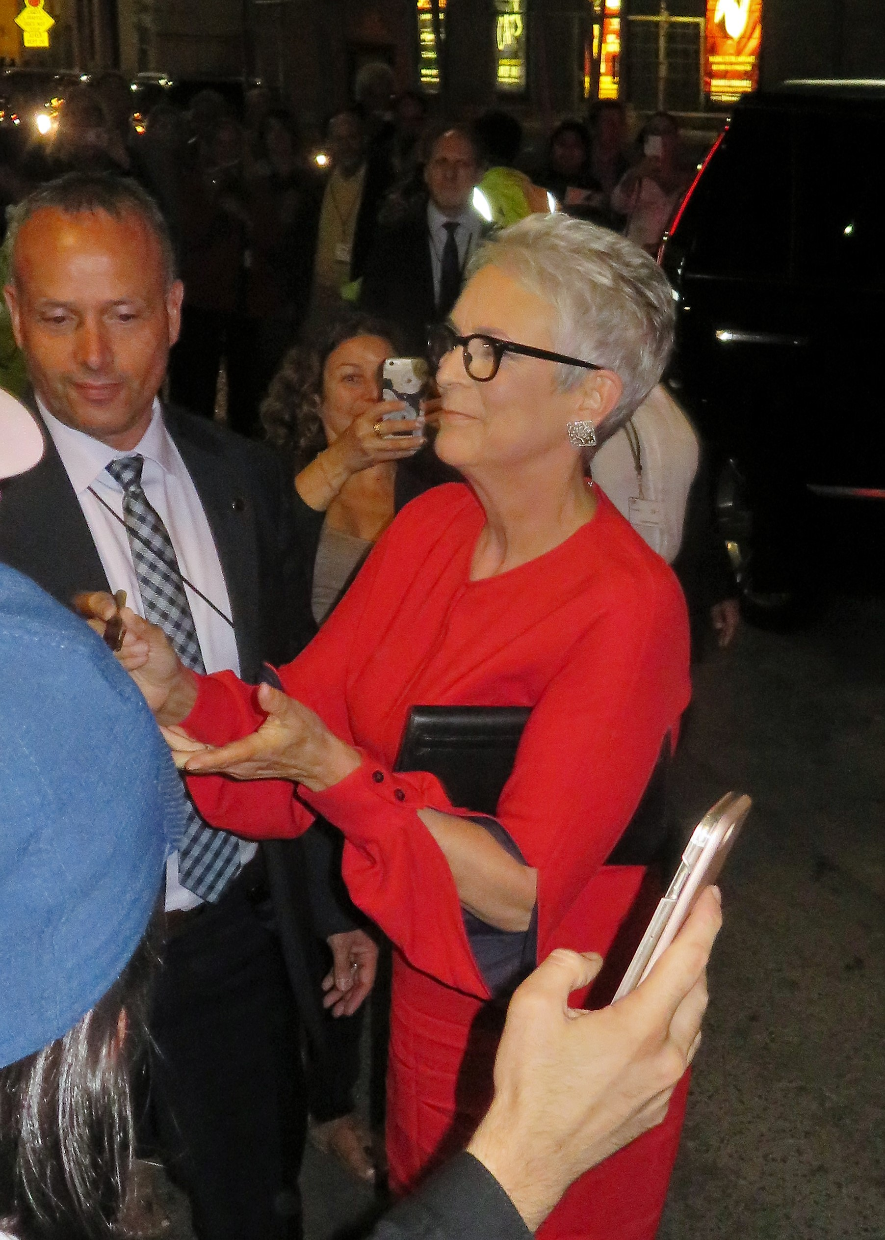 Jamie Lee Curtis at the premiere of Knives Out, 2019 Toronto Film Festival